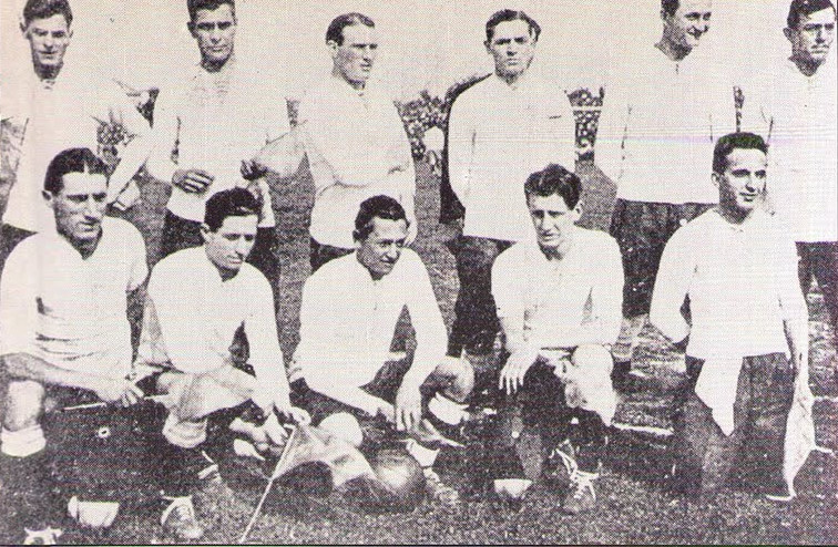 Argentina national football team at the 1921 South American championship held in Buenos Aires. Players f.l.t.r. (stood): Tesoriere, Delavalle, Solari, Alfredo López, Bearzotti, Celli; (down): Calomino, Libonatti, Gabino Sosa, Echeverría, Chavín.